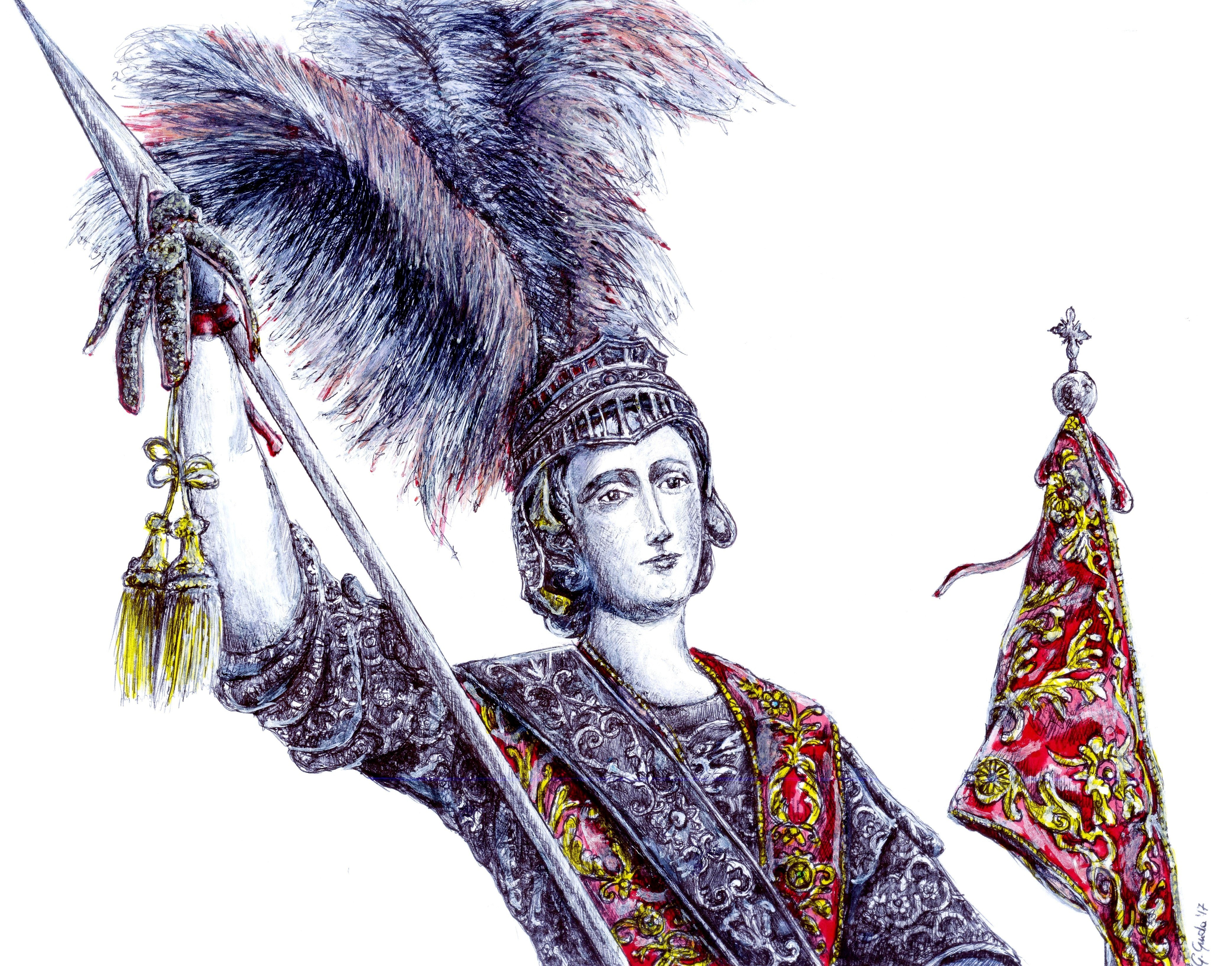 Illustration St George the Martyr;Sant Chorche ;القديس جرجس ; ܡܪܝ ܓܝܘܪܓܝܣ ܣܗܕܐ; Георгій Перамаганосец; Георги Победоносец ; Sant Jordi; Svatý Jiří; Sant Siôr (sant); Sankt Jørgen ; Hl. Georg; Άγιος Γεώργιος; Saint George; Sankta Georgo ;Jorge de Capadocia; Püha Jüri; Jurgi Kapadoziakoa; جرجیس ; Pyhä Yrjö ; Georges de Lydda; Naomh Seoirse; Xurxo de Capadocia; גאורגיוס הקדוש; Sveti Juraj; Szent György; Santo George; Heilagur Georg ;ゲオルギオス (聖人); წმინდა გიორგი ; 성 게오르기우스; Sanctus Georgius; Šv. Jurgis; Svētais Juris; Свети Георги ; വിശുദ്ധ ഗീവർഗീസ് ; heilige Joris; Heilage Jørgen; Sankt Georg; Sankt Jørgen; Saint George; Sant Jòrdi; Święty Jerzy; São Jorge; Sfântul Gheorghe; Георгий Победоносец ; San Giorgiu; Saunt George; Sveti Georgije; Svätý Juraj; Sveti Jurij; Shën Gjergji; Свети Георгије; Sankt Göran; புனித ஜார்ஜ் ; นักบุญจอร์จ • Yorgi; Святий Юрій; San Zorzi; Thánh George; წიმინდე გერგი; 圣乔治 ; 聖佐治